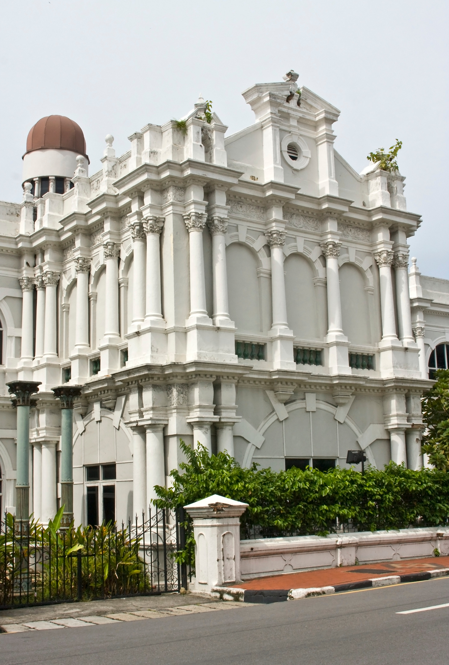 Penang State Museum and Art Gallery